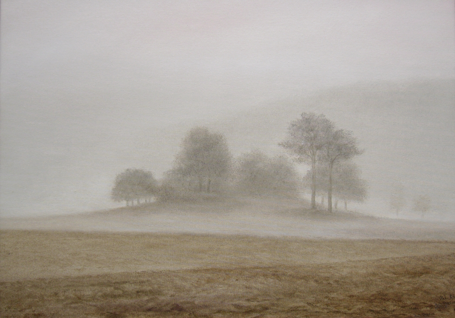 Kati Olah: Dream